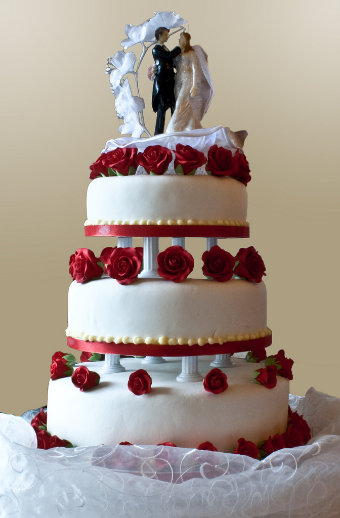 Cake photo taken during one of my friend's wedding. Changed the background of the image using Photoshop. For this shot I kep the cake near the window for getting side light inorder to get the depth and reveal the shape. Any negative/positive comments are most welcome.